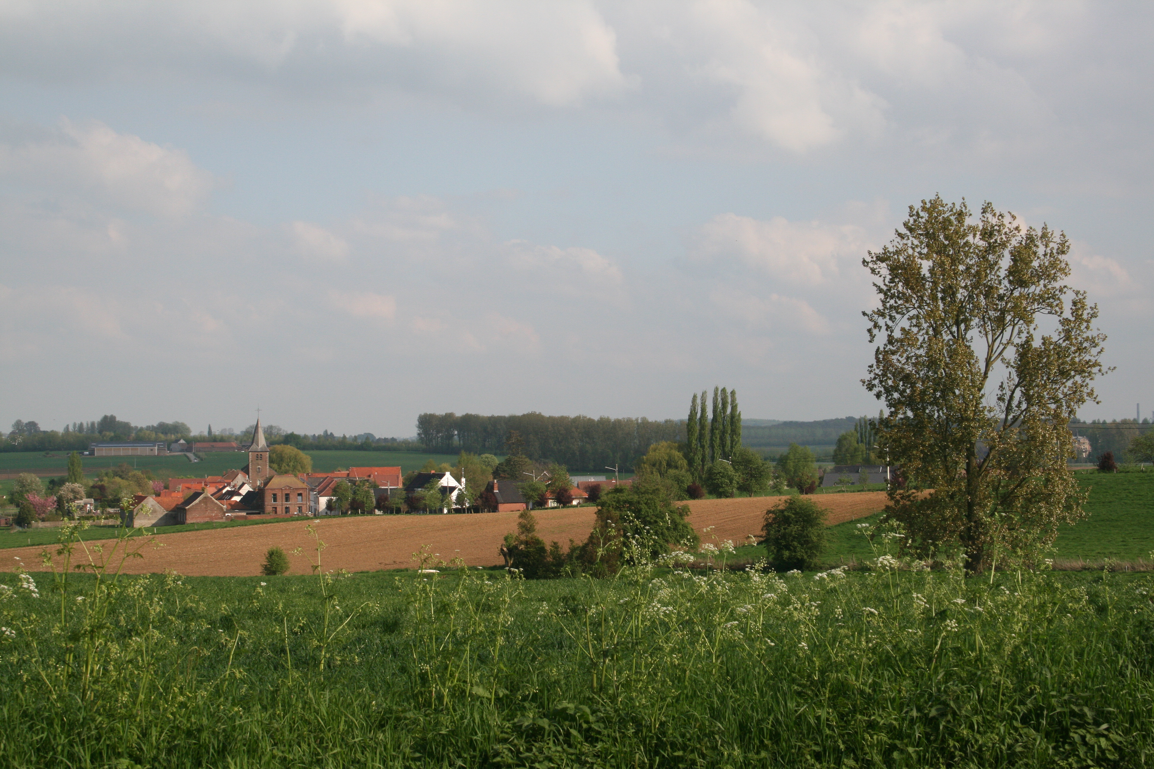 Mourcourt (Belgium), the village seen from the Route Provinciale.